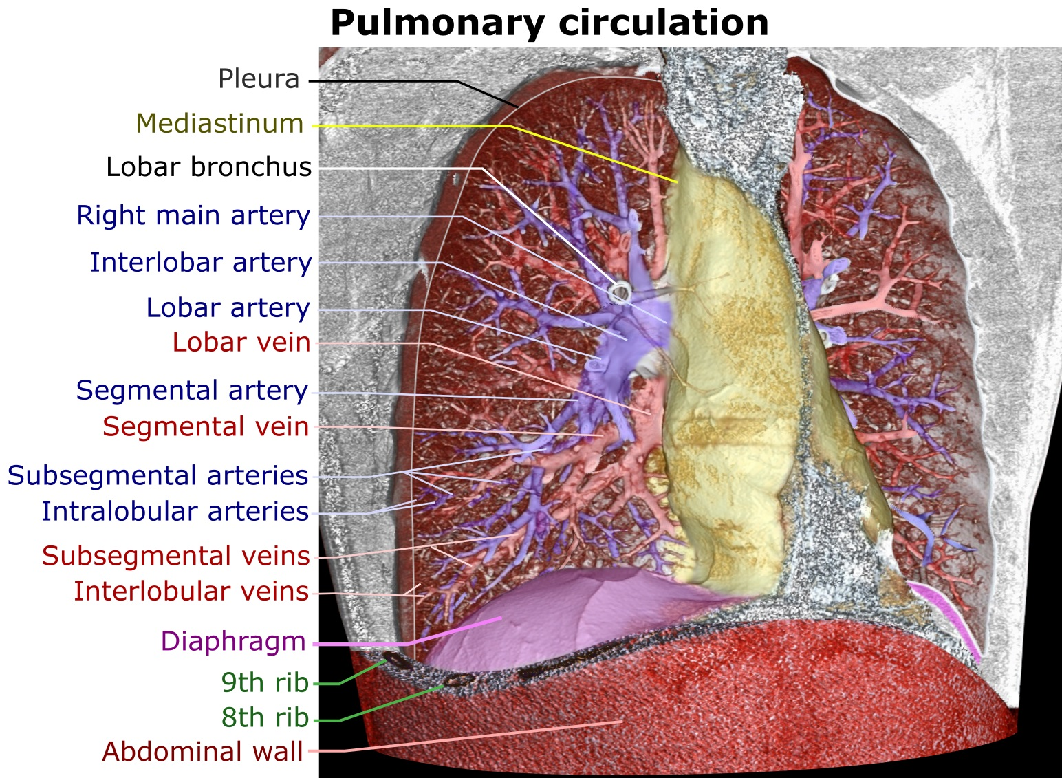 edit Artificially colored 3D rendering of a high resolution computed tomography of a normal thorax of a 37 year old man who presented with unspecific breathing problems, published with written informed consent. The anterior thoracic wall, the airways and the pulmonary vessels anterior to the root of the lung have been digitally removed in order to visualize the different levels of the pulmonary circulation.